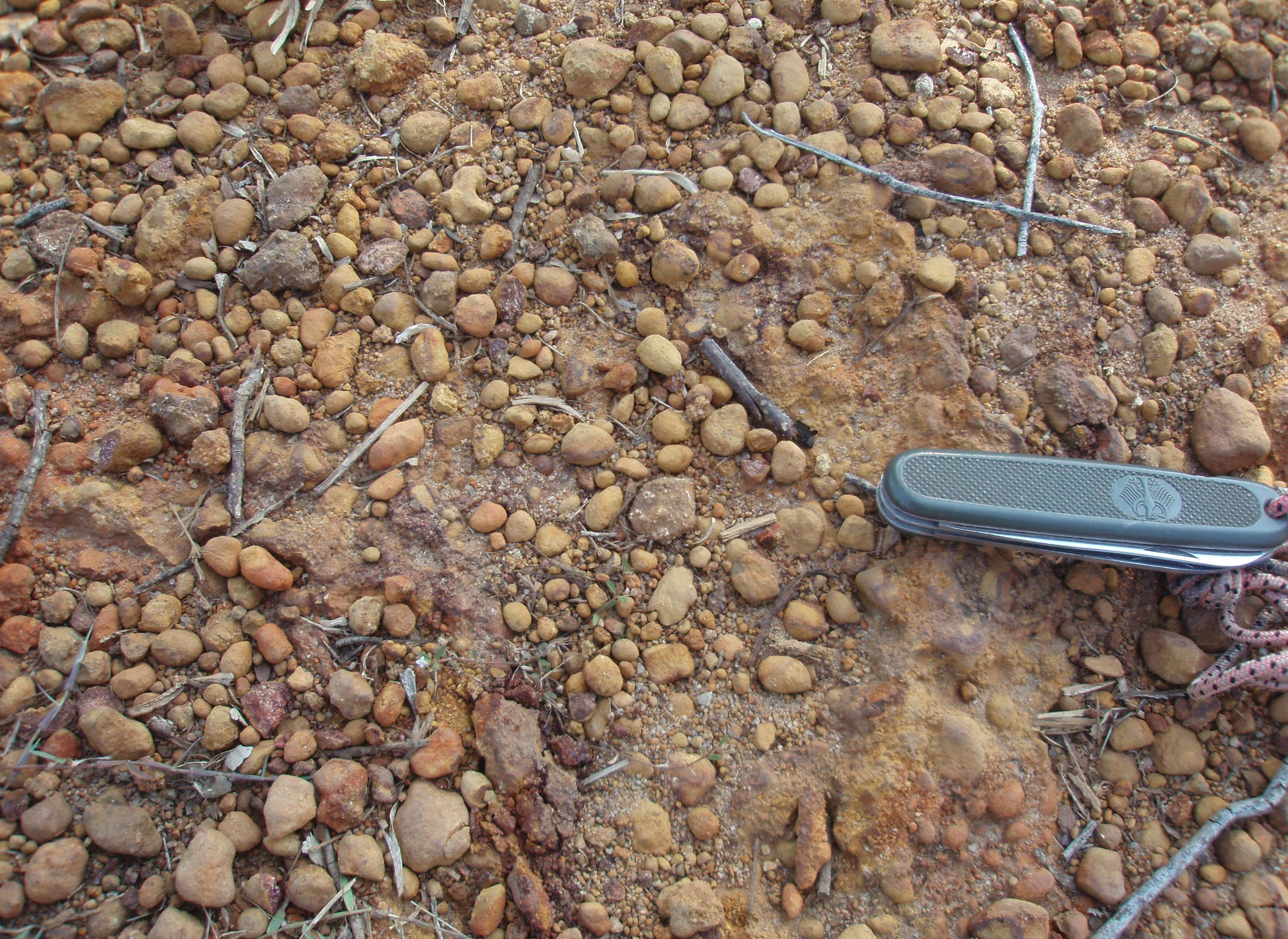 Manantenina, Anosy region, Madagascar, bauxite exposed in the center of the town